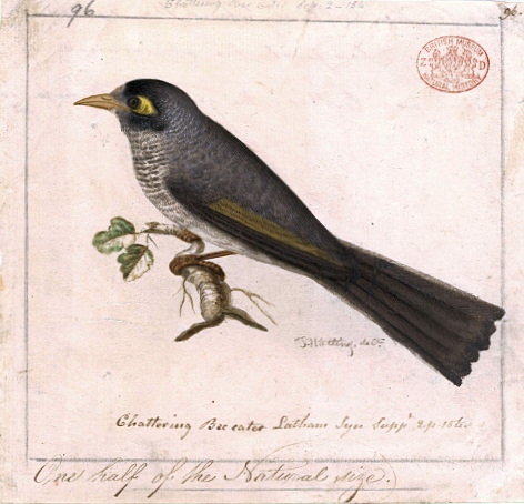 Thomas Watling's 1792 drawing of the Noisy Miner, then described as a Chattering Bee-eater